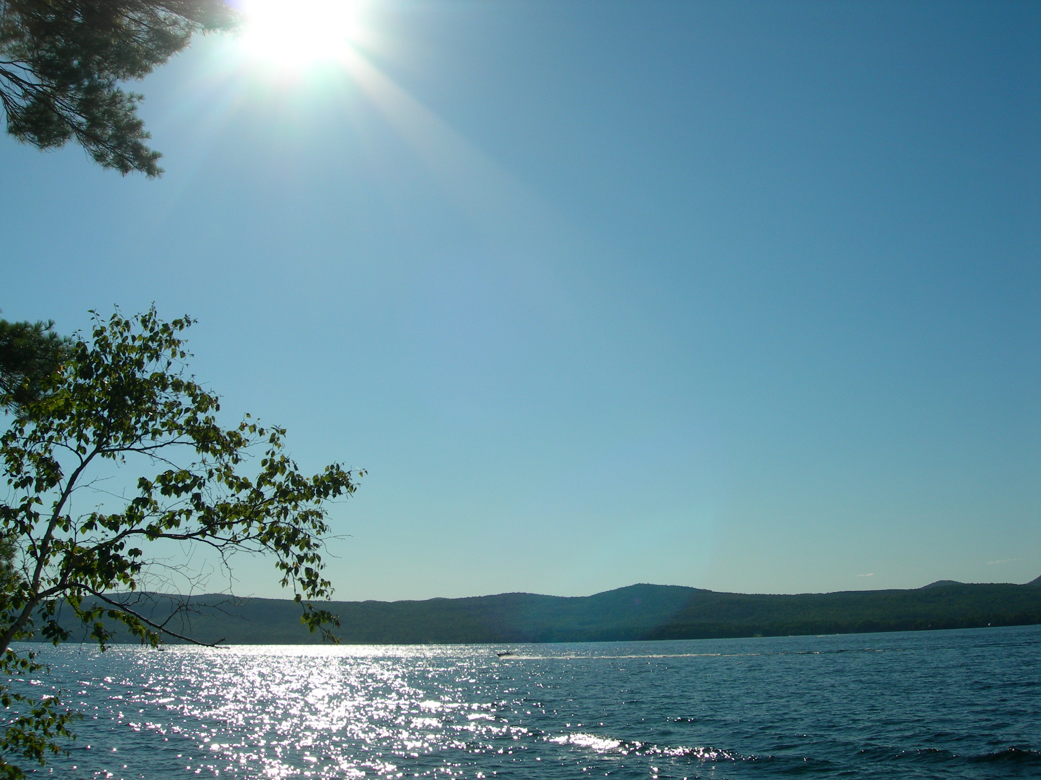 Lake George in Late June of 2005.